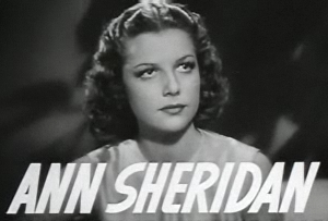 Cropped screenshot of Ann Sheridan from the trailer for the film Indianapolis Speedway.